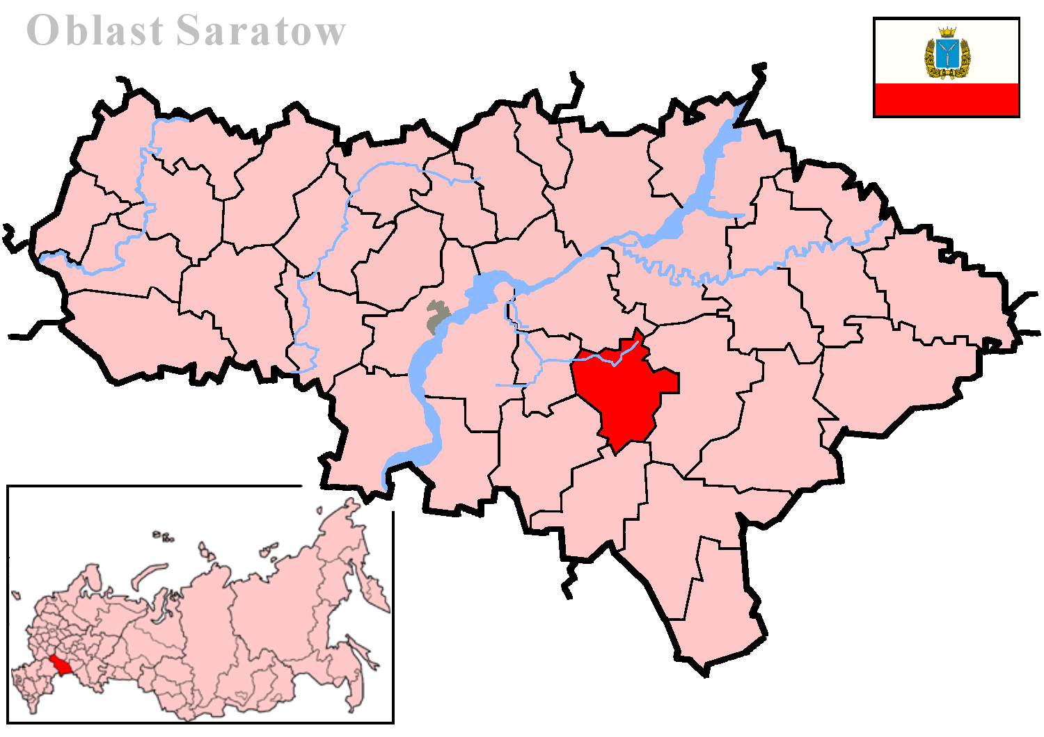 Location of Fyodorovsky District, Saratov Oblast